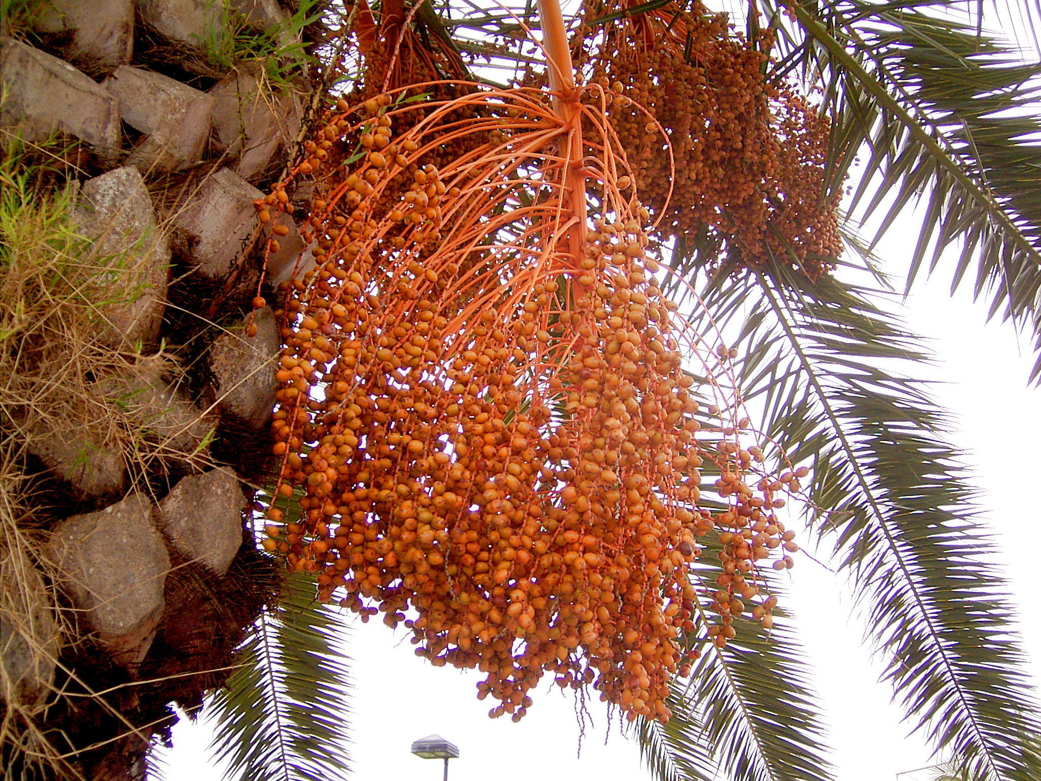 Phoenix canariensis growing in Barlovento, La Palma, Canary Islands